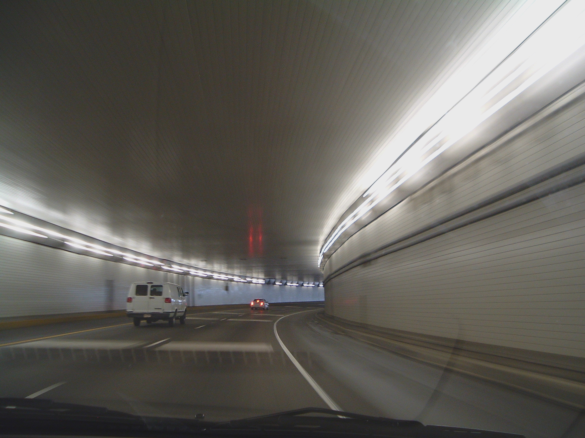 Inside of Lytle Tunnel in Cincinnati. Self Made Photo.